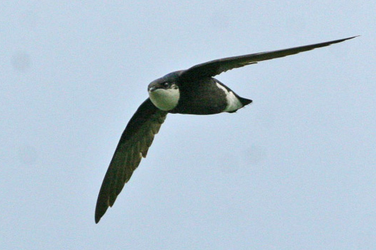 White-throated Needletail (Hirundapus caudacutus) at Limethang Road to Tashigang, Bhutan